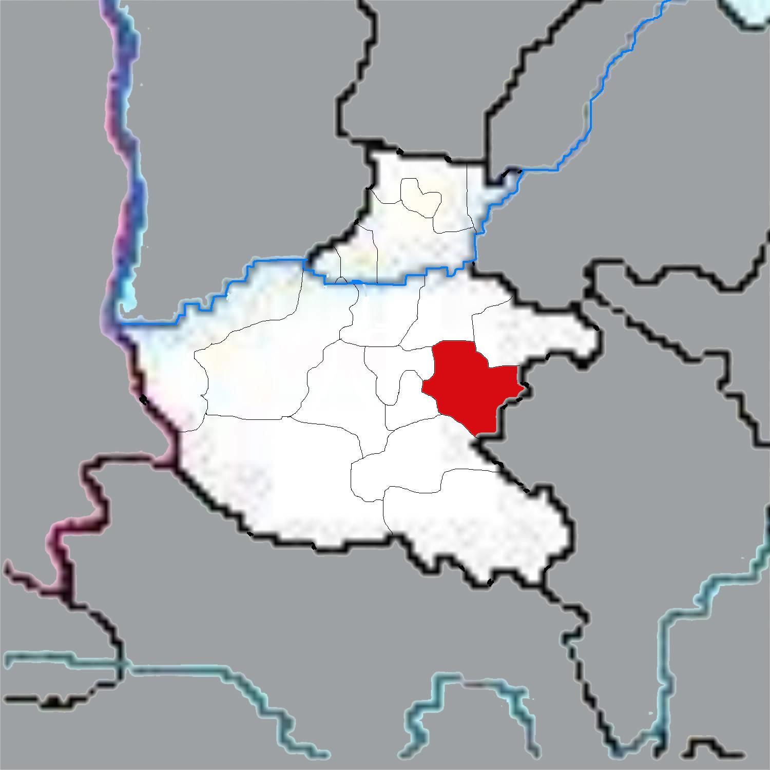 Maps of Henan Province of China